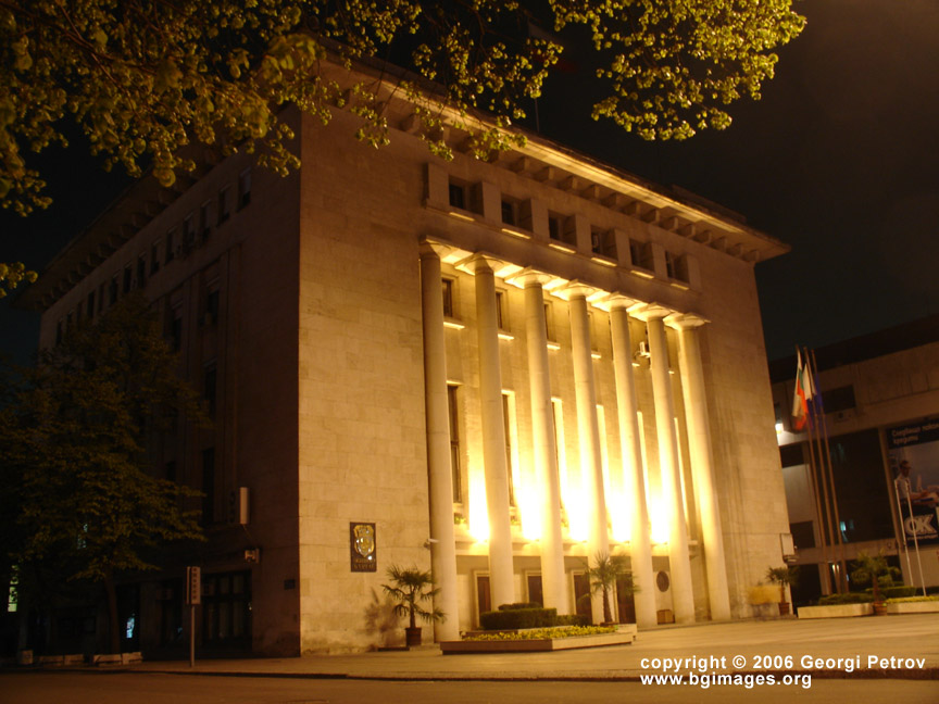 The City Hall of Burgas copyright Georgi Petrov 2006 (